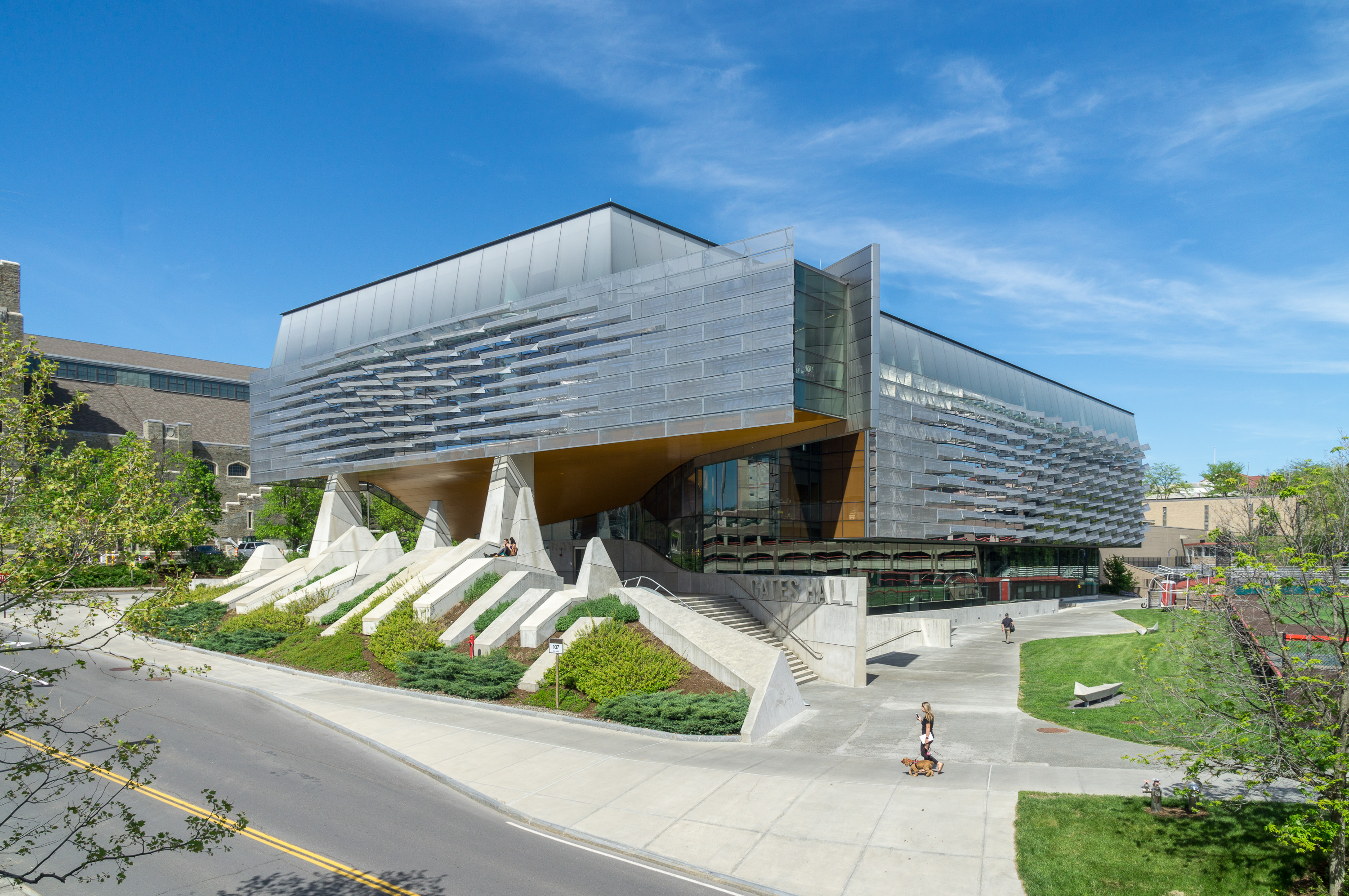 Bill & Melinda Gates Hall, Cornell University, Ithaca, NY